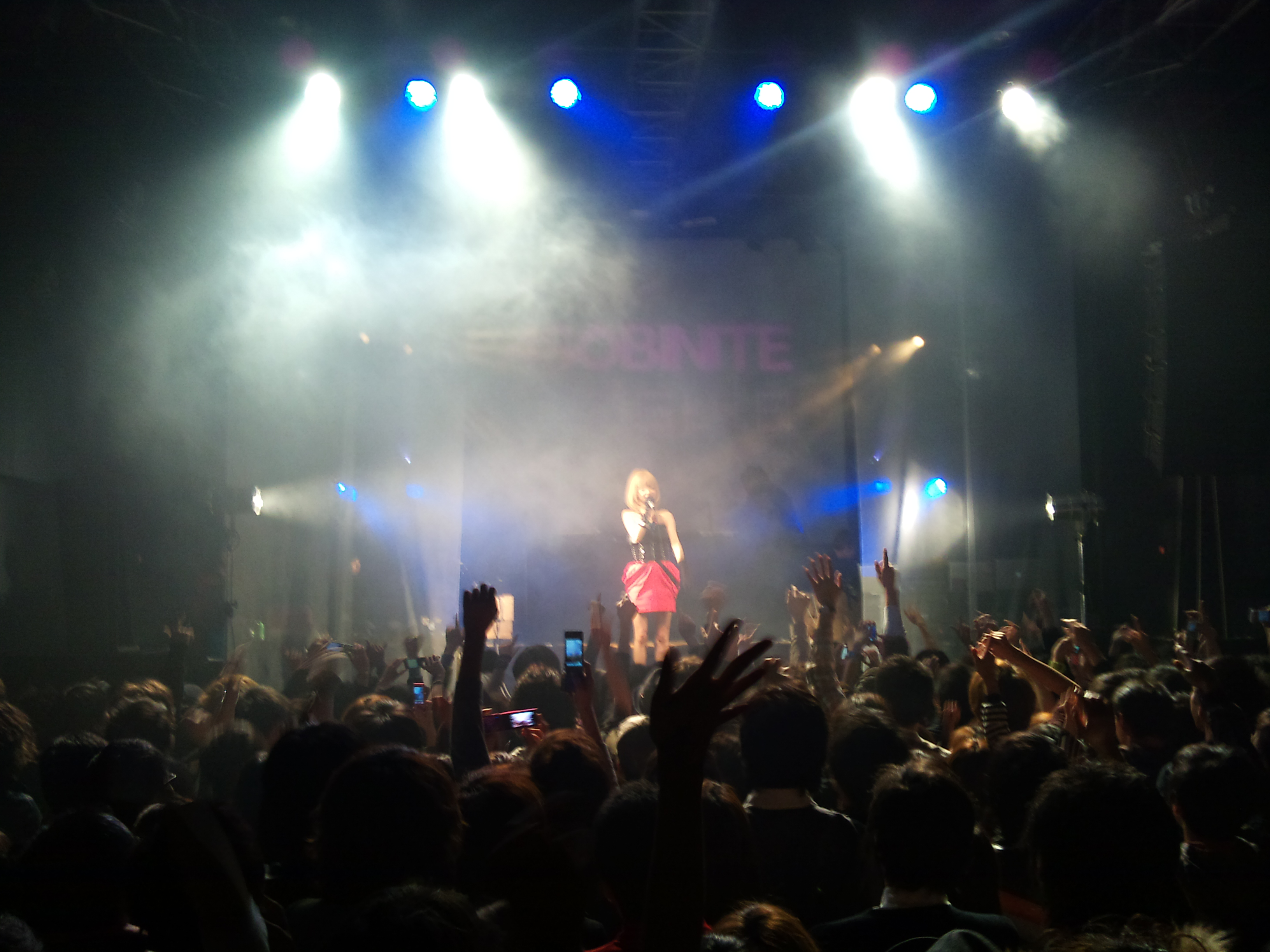 ASOBINITE-capsule RELEASE PARTY"PLAYER", STDUIO PARTITA, 2010-03-26 This pretty much made the trip worth it in 2 hours.